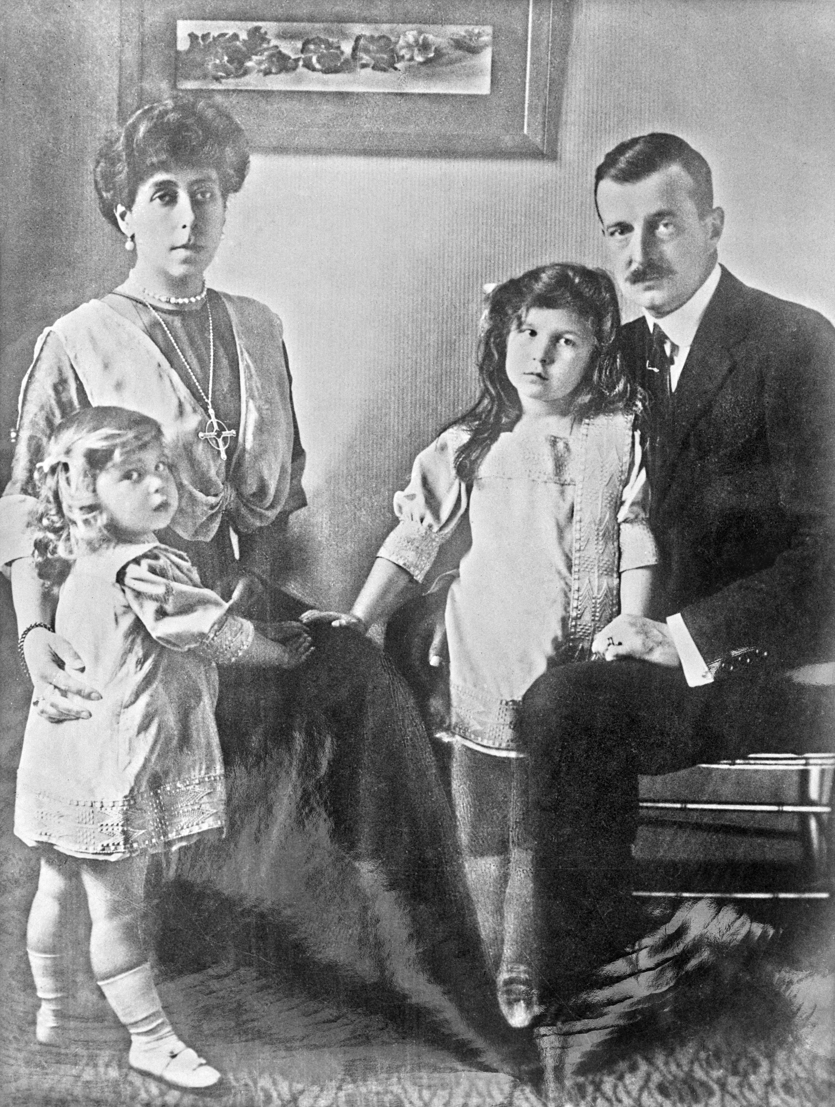 The Grand Duke Cyril Vladimirovich and his family (his wife Victoria and his daughters, Marie, the eldest and Kira, 1922 reproduction from the portrait made in Coburg by photographer H. Dänzer, circa 1912).